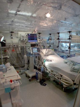 Inside view of negative pressure isolation chamber for isolation and treatment of patients with contagious disease. The chamber is made by Beth-El Industries [1]